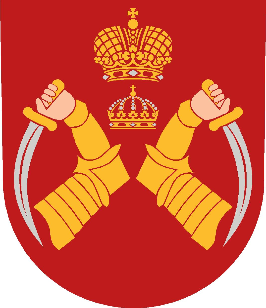 Vyborg Governorate existed 1721-1811 (merged to Finland).